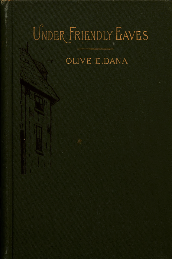 Under Friendly Eaves, By Olive E. Dana